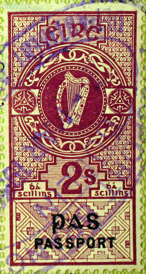 Two shilling consular service stamp on an Irish Free State passport (1939)